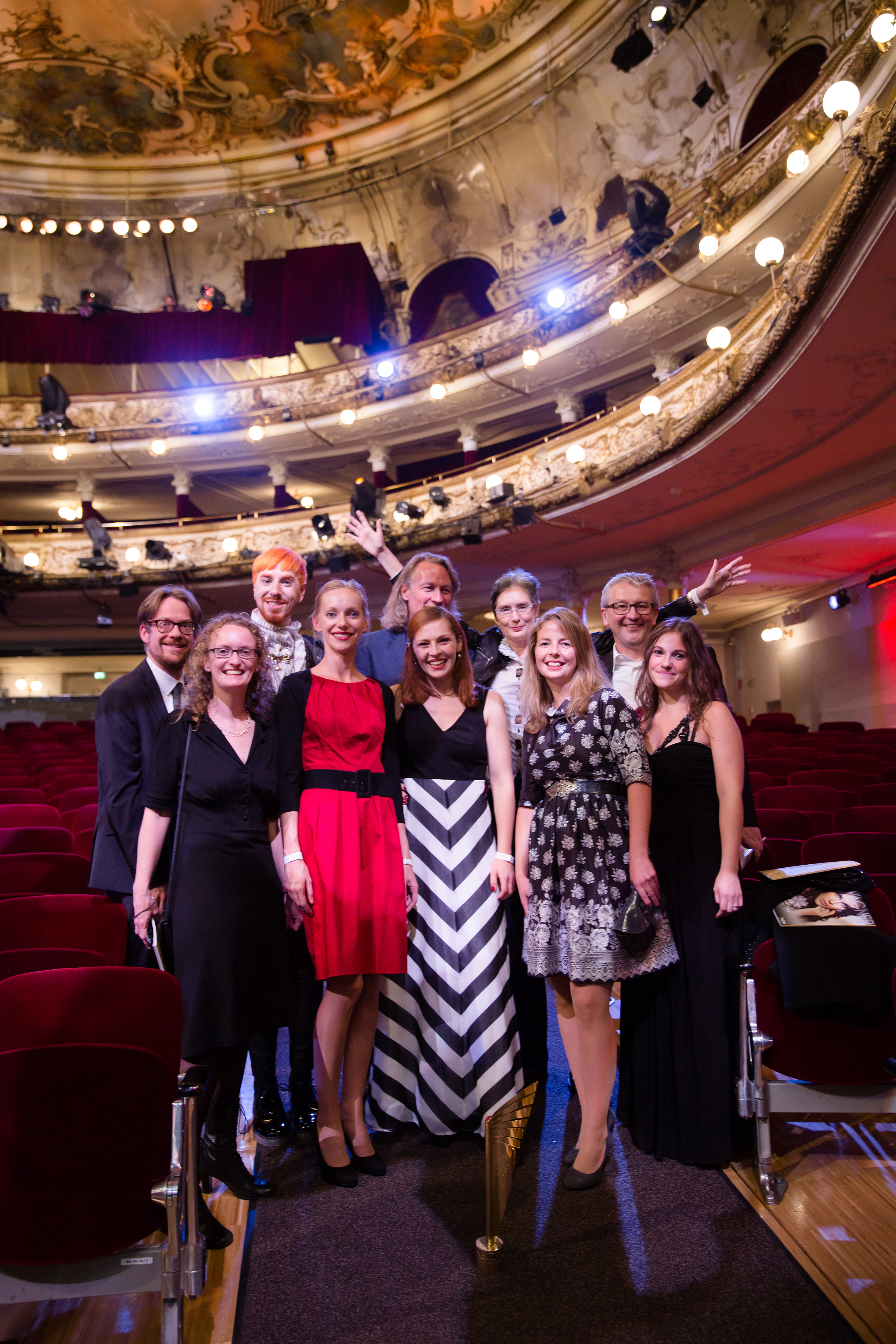 Team and ensemble of the dramatization of Anna Karenina at Tiroler Landestheater Innsbruck at the Nestroy Theatre Awards 2015 (Ronacher, Vienna, Austria).